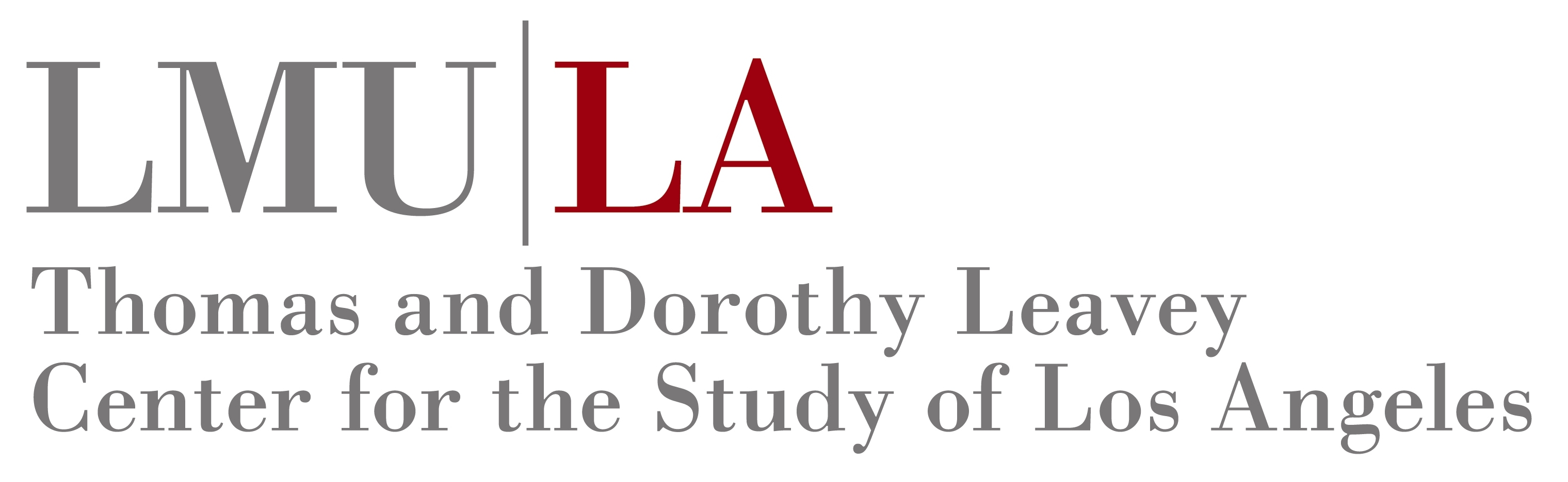 A logo of the LCSLA